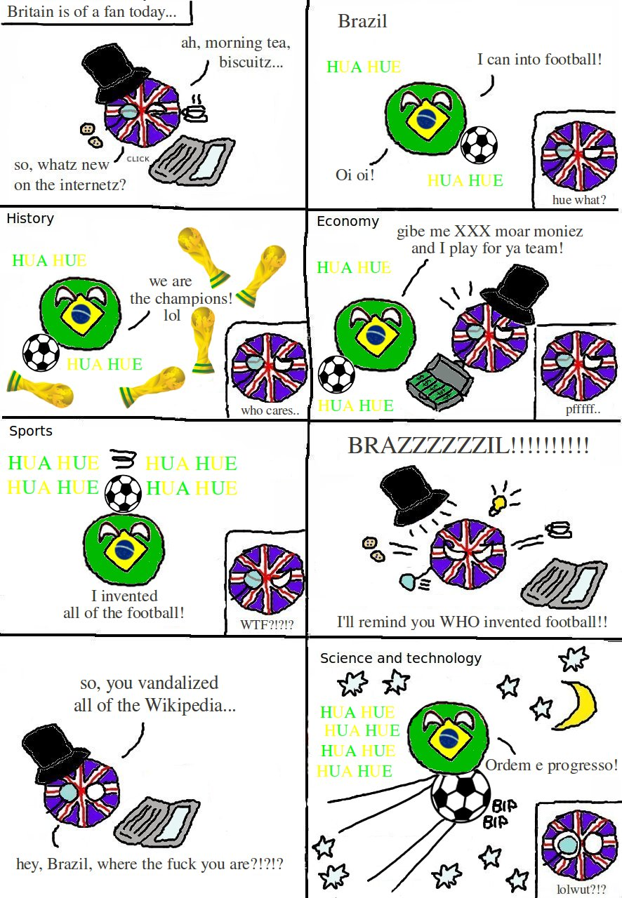 Brazilball, a countryball which can into football, Wikipedia and.. space?